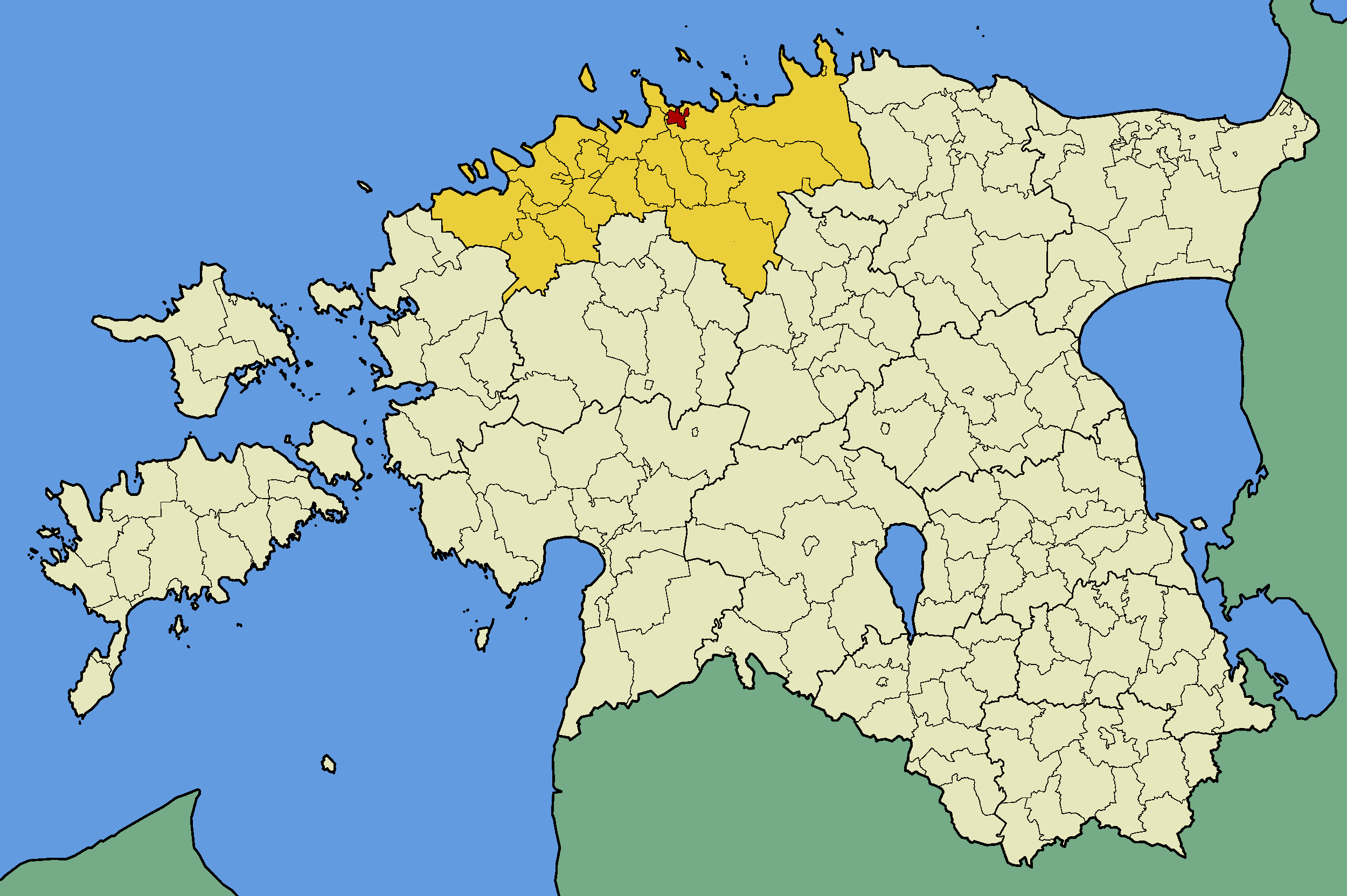 Map of Estonia with borders of municipalities (parishes). Harju county and Maardu town municipality emphasized.